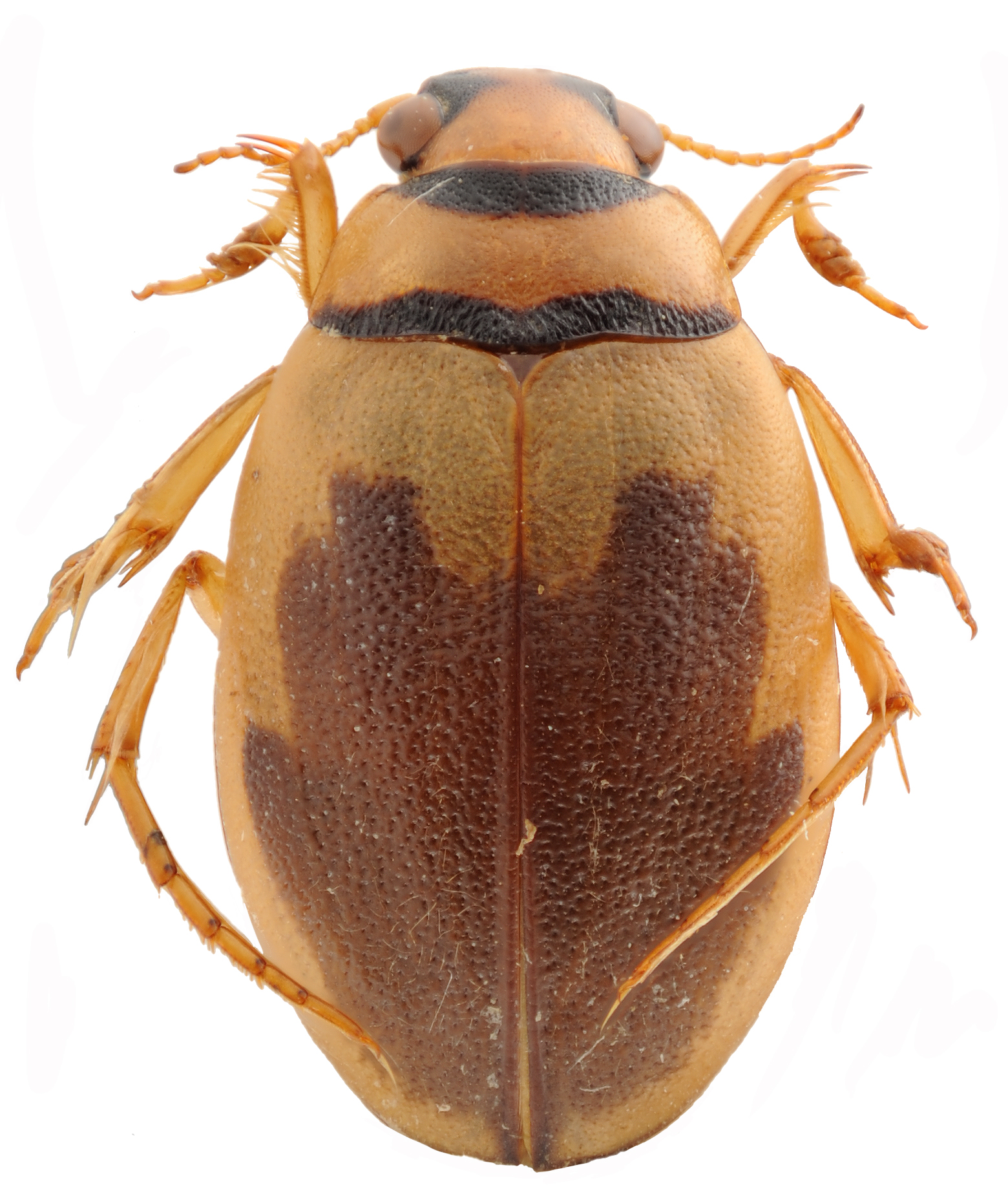 Habitus dorsal of Coleoptera: Dytiscidae: Paelobiidae: Hygrobia hermanni